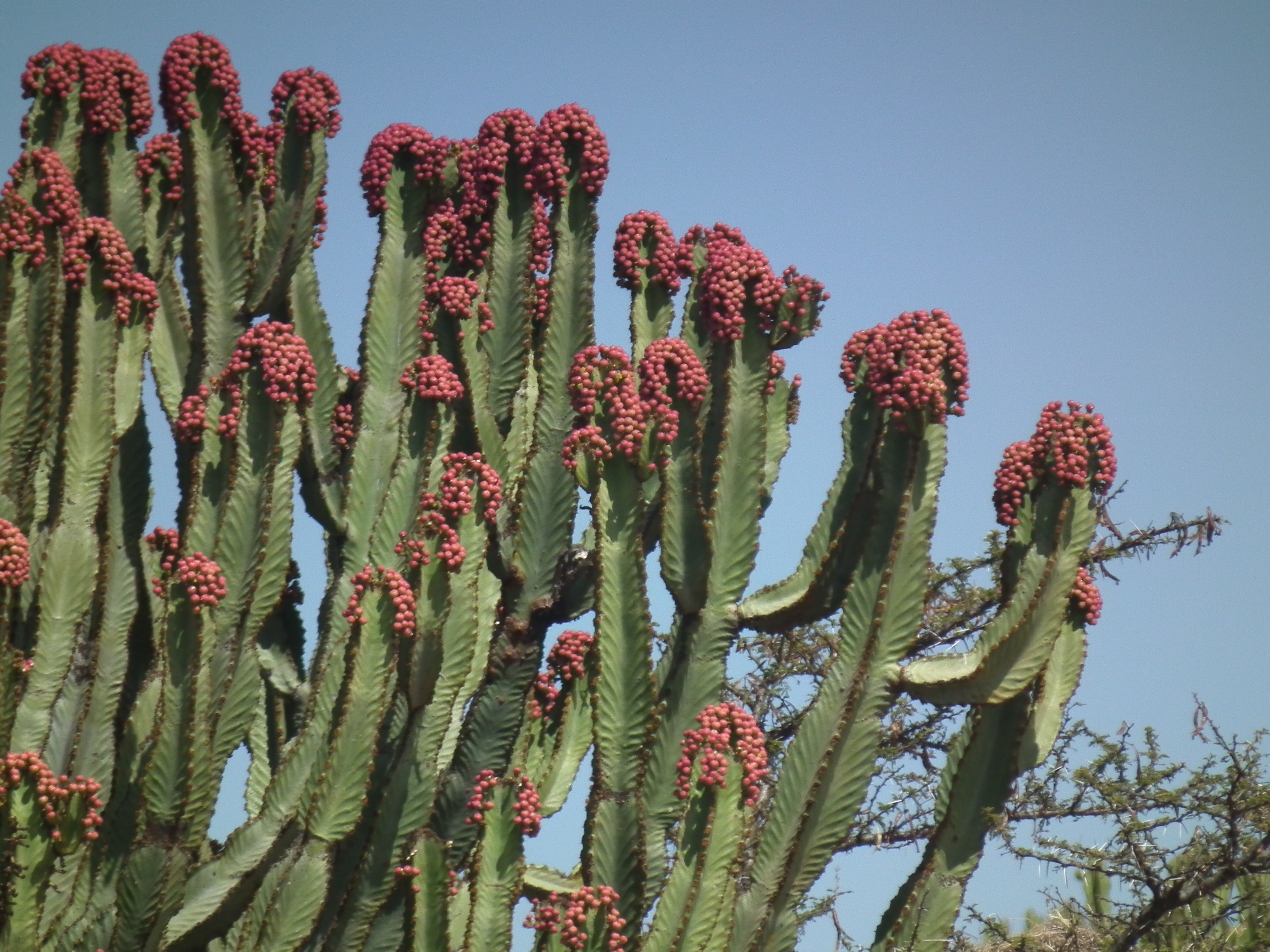 Candelabra tree (Euphorbia candelabrum), picture taken at, Northern Tanzania